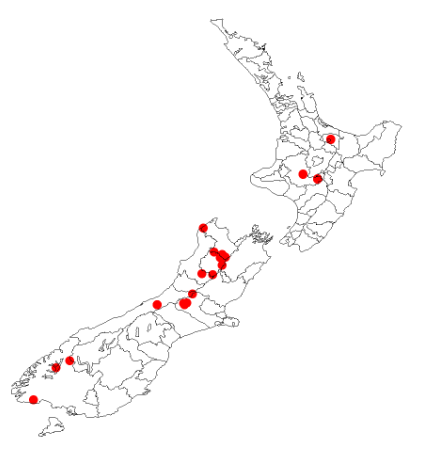 Carex capillacea New Zealand occurrence data from Australasian Virtual Herbarium downloaded 27 November 2019 using DOI